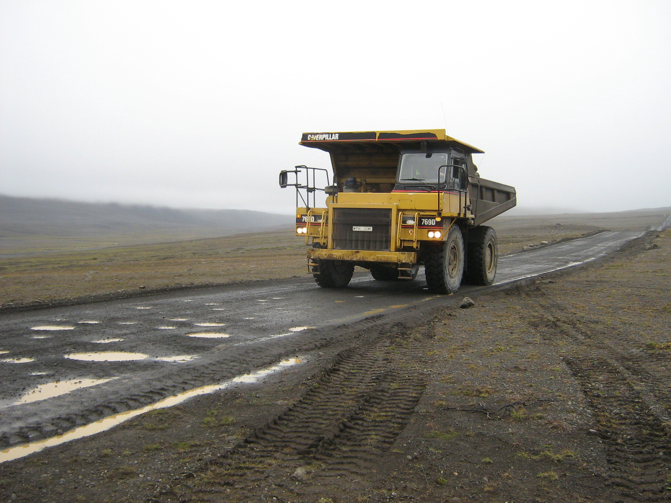 A large mining truck at Kárahnjúkar, transporting large stones, in all probability to the dams.